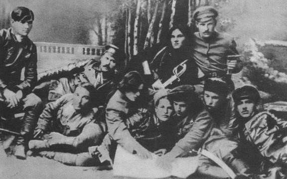 Makhno among rebel commanders, Berdyansk, 1919. Caption at makhno.ru reads: "N. I. Makhno among rebel commanders. First row from left to right: I. Lyuty, P. Belochub, N. Makhno, V. Kurylenko, F. Schus, J. Ozerov, A. Chubenko. Second row: A. Olkhovik, P. Puzanov, Novikov. 1919 Berdyansk."